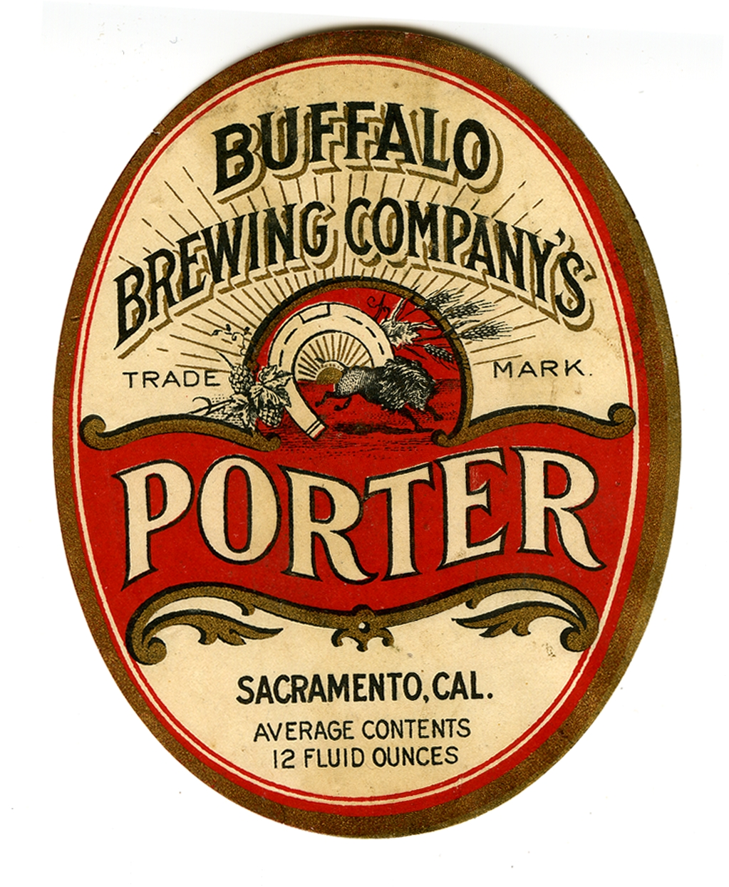 Repository: California Historical Society Digital object ID: CEP016.jpg Call number: BUS EPH Collection: California business ephemera collection Date: Undated Preferred citation: Beer bottle label from Buffalo Brewing Company, California business ephemera collection, courtesy, California Historical Society, CEP016.jpg. Online finding aid